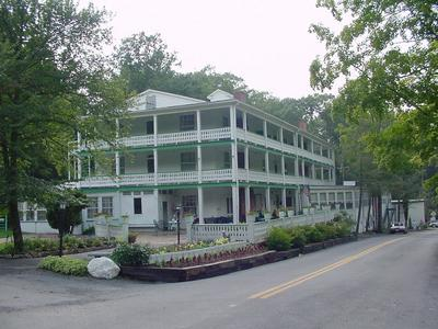 Main House (c. 1887) at Capon Springs and Farms Resort in Capon Springs